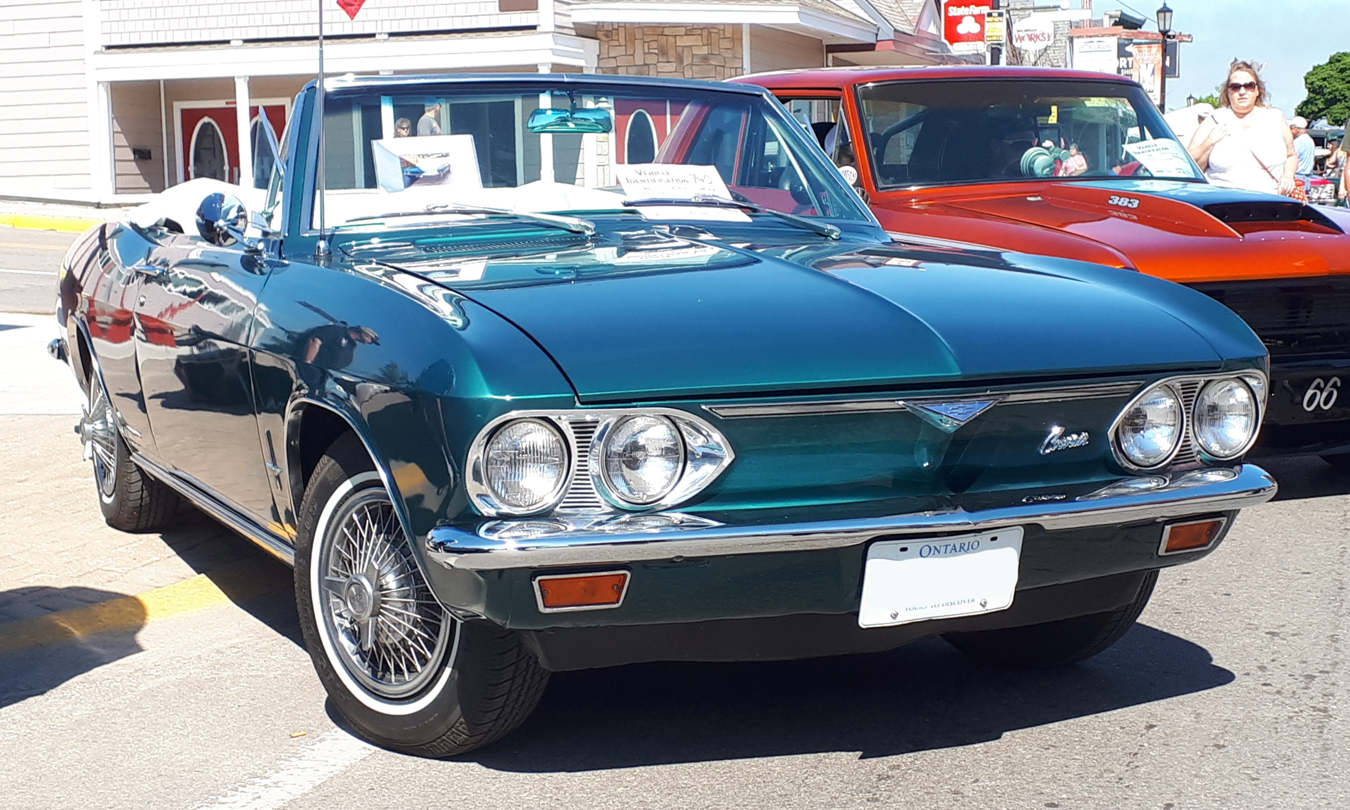 1965-1967 Chevrolet Corvair photographed in St. Ignace, Michigan at the annual St. Ignace car show weekend.